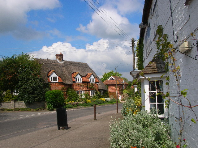 East Hanney village, Oxfordshire